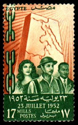 23rd of July 1952 revolution stamp